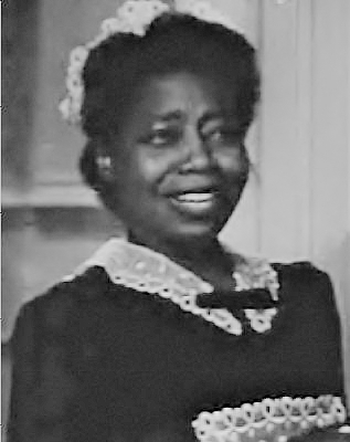 Cropped screenshot of Butterfly McQueen from the film Affectionately Yours